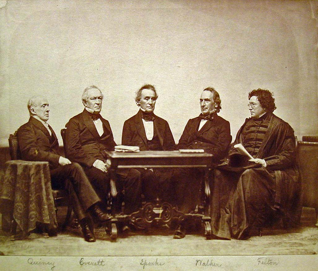 The only known photograph of five Harvard presidents. Left to right, Josiah Quincy (1829-1845), Edward Everett (1846-1849), Jared Sparks (1849-1853), James Walker (1853-1860), and Cornelius Conway Felton (1860-1862).